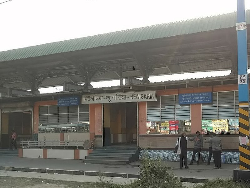 New Garia Railway Station